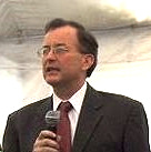 Ottón Solís Fallas, Costarrican politician